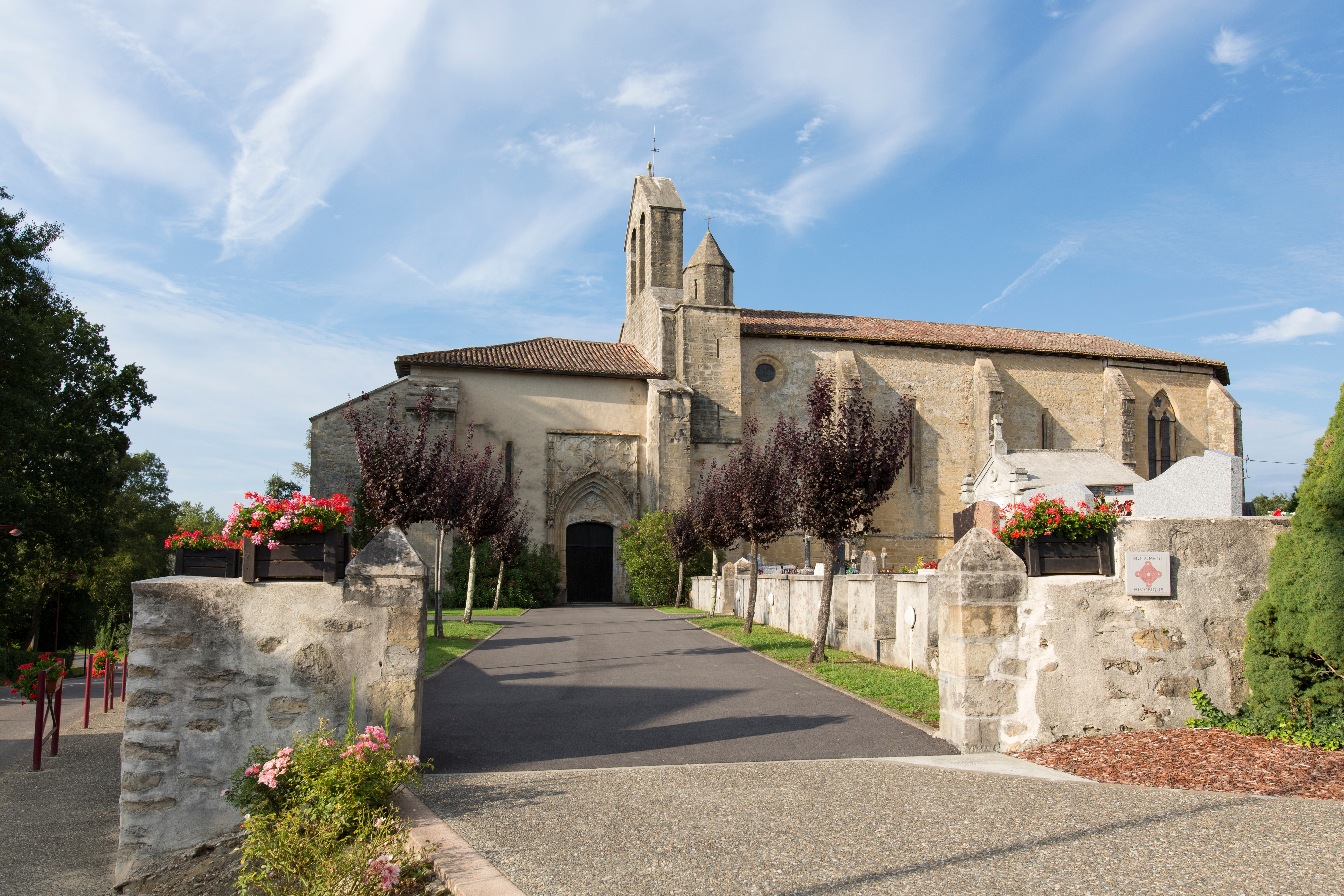 l'église